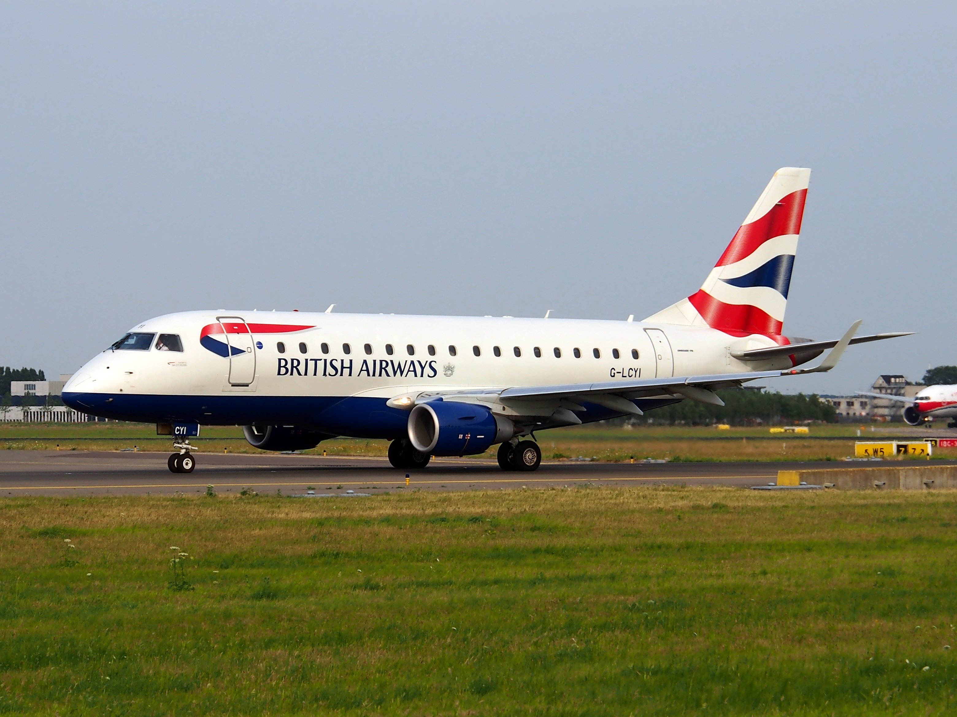 Photographed at Schiphol, Amsterdam airport, (IATA: AMS, ICAO: EHAM), the Netherlands.